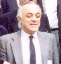 Cropped version of Image:Ichbiah.jpg